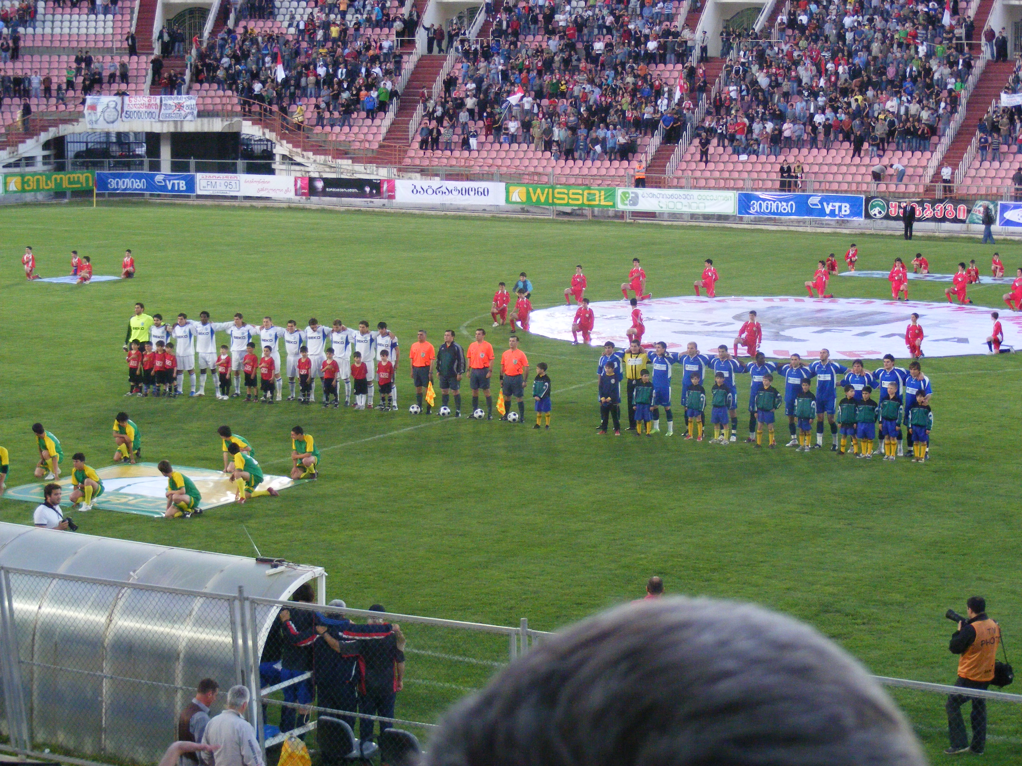 საქართველოს თასის ფინალი